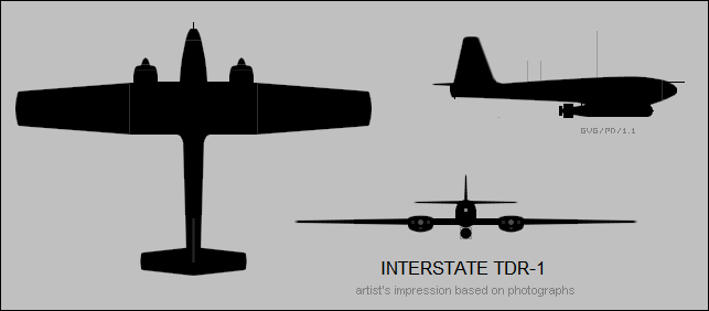 Three-view drawing of Interstate TDR-1 assault drone, derived from PD photographs.